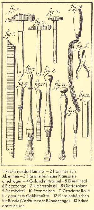 Tools for bookbinders